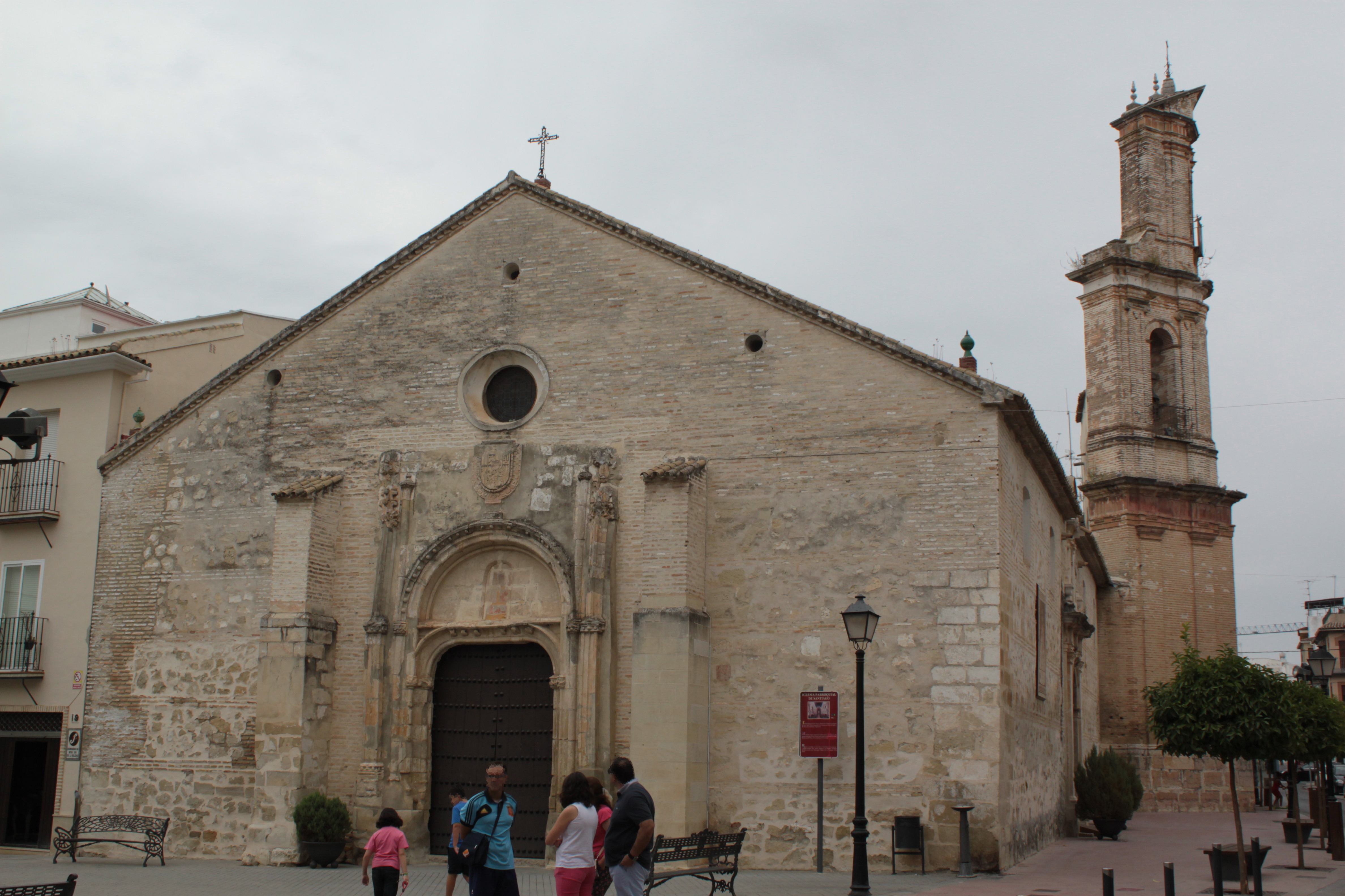 Church of Santiago (Saint James). Lucena (Spain).